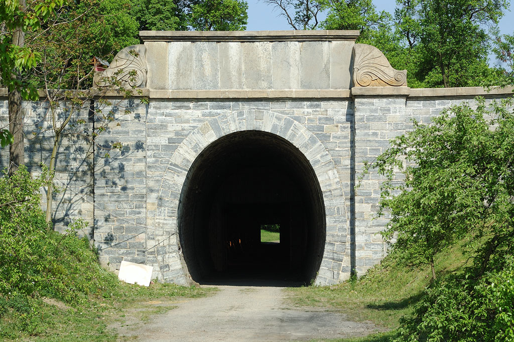 Western portal of abandoned railway tunel in Slavíč, the Czech Republic